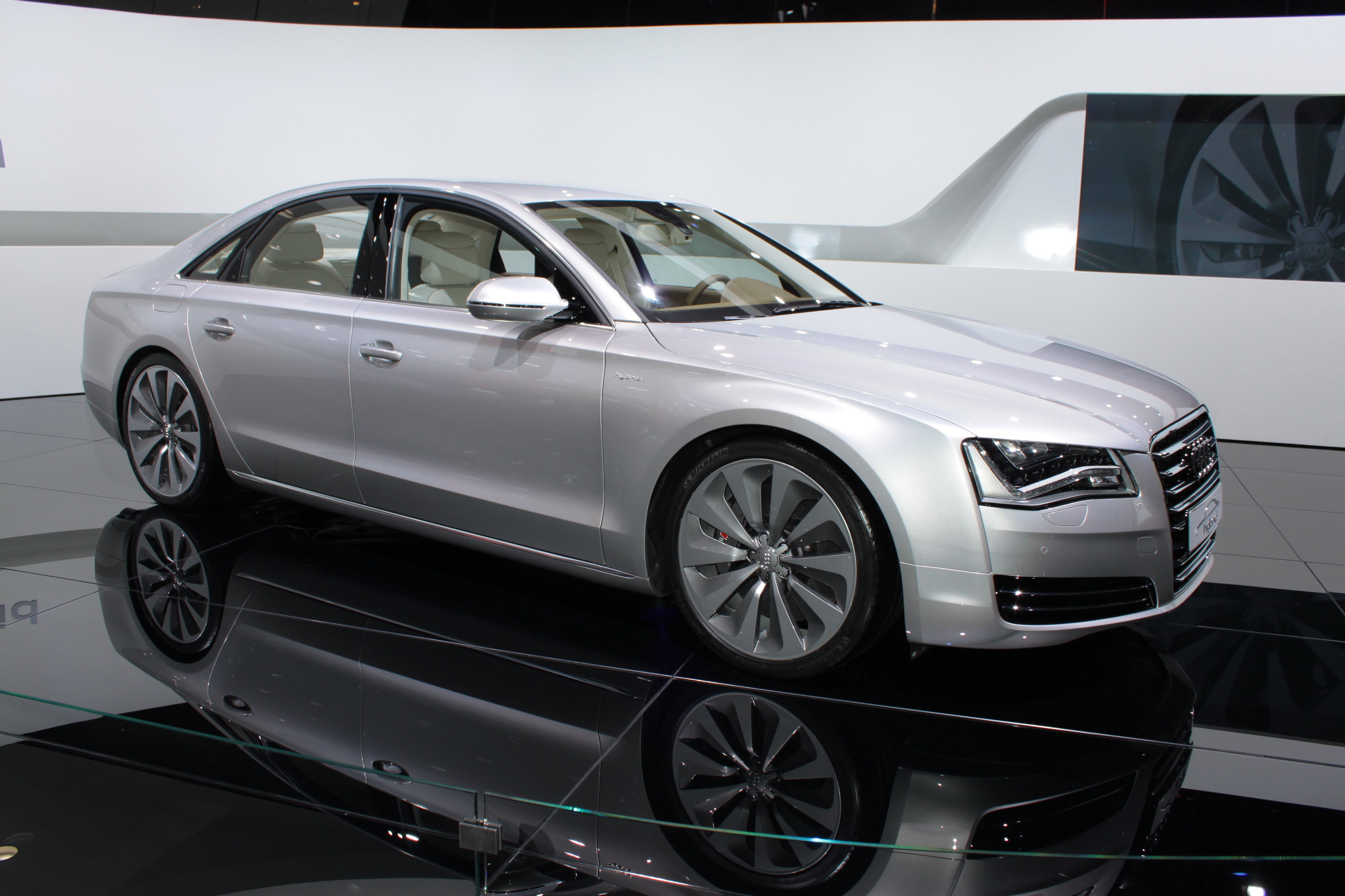 Audi A8 Hybrid at the 2010 Geneva Motor Show